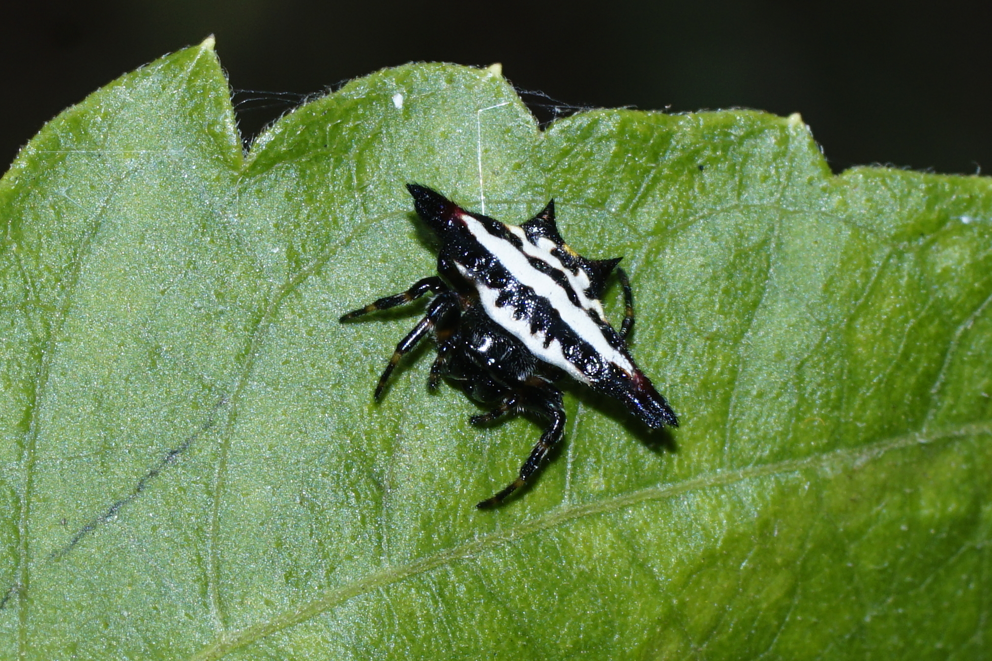 Spiny-backed orb-weaver